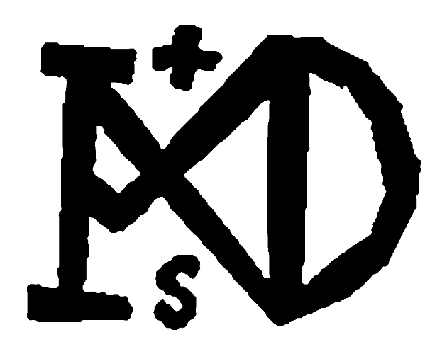 Monogram found of coins of the Mauro-Roman Berber king Mastigas, based on Camps (1984)